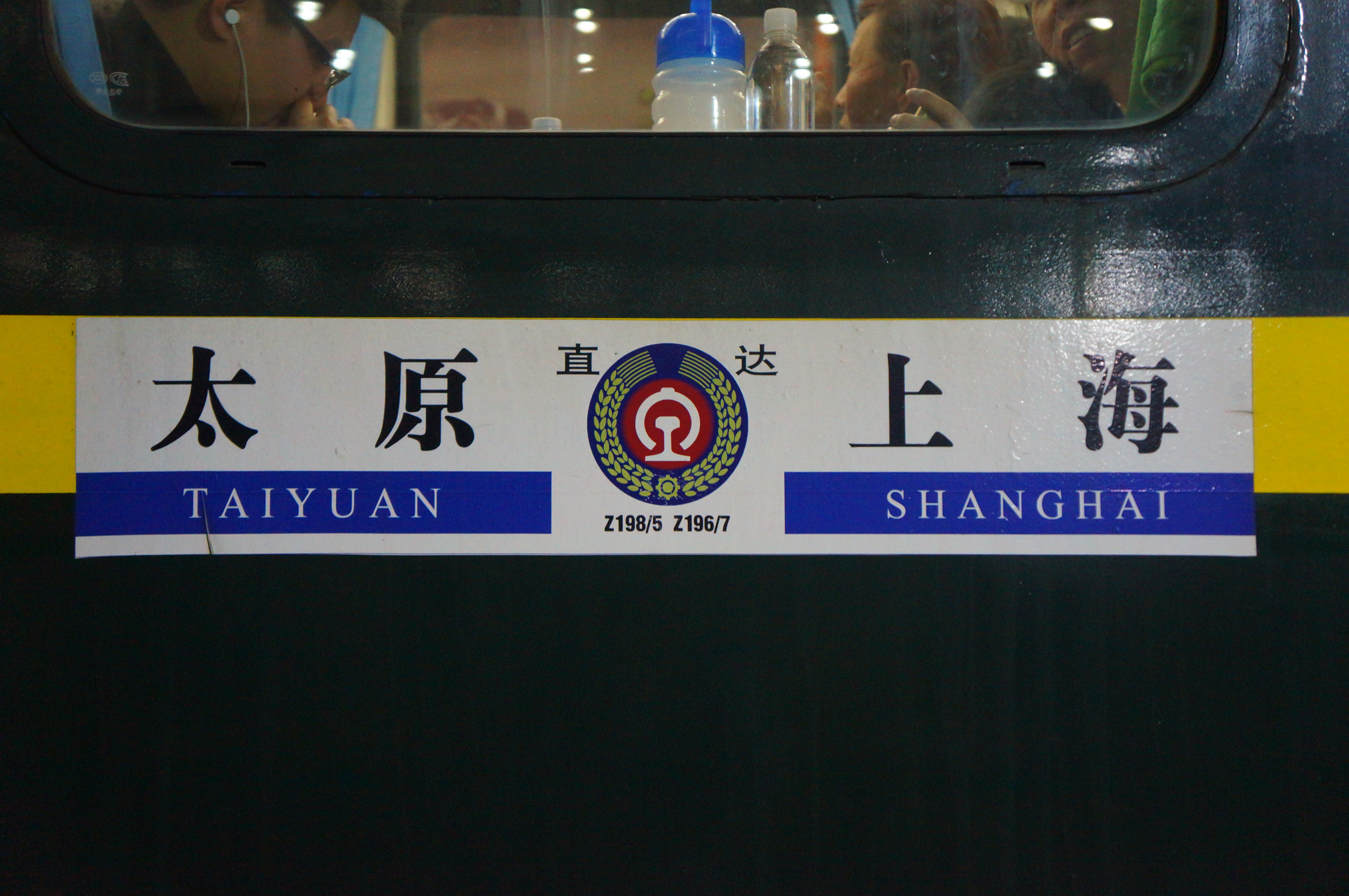 Z195 6 7 8 inforboard in 201702. Taiyuan Railway Bureau paint the frame green as well. Taken at Wuxi Station